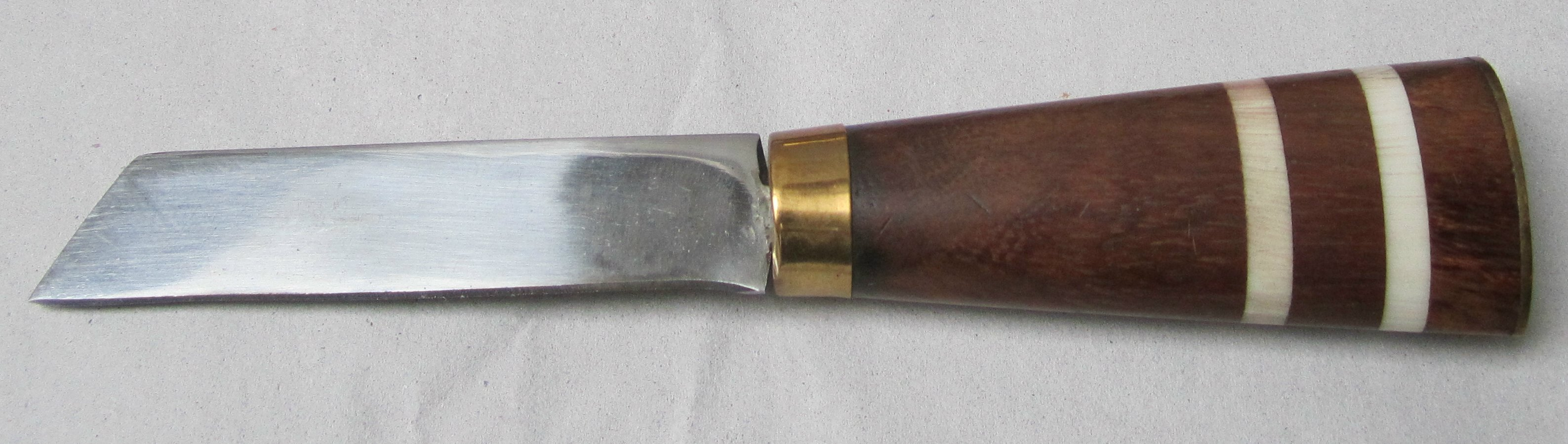 A small "Tscherper" (a special knife, used by german miners, especially from the Ore Mountains and the Harz region, from medieval until the 20th century as a tool). Today tscherpers are still part of the traditional miners uniforms.